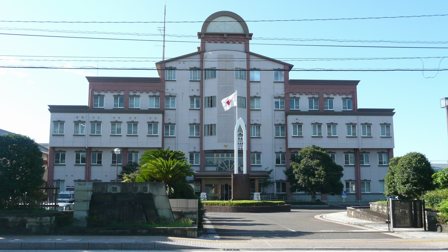 Omura Police Station (Omura City, Nagasaki, Japan)